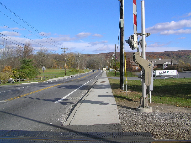 I took this photograph of Route 311 in Patterson, looking east from Town Hall. — GNU Free Documentation License